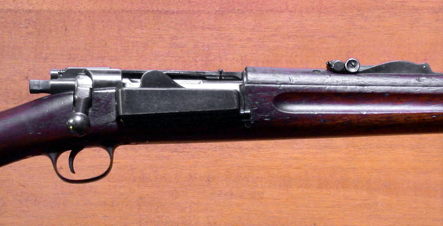 U.S. Model 1898 Krag rifle